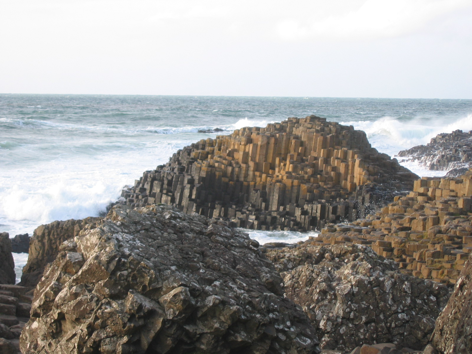 Giant's Causeway, Northern Ireland